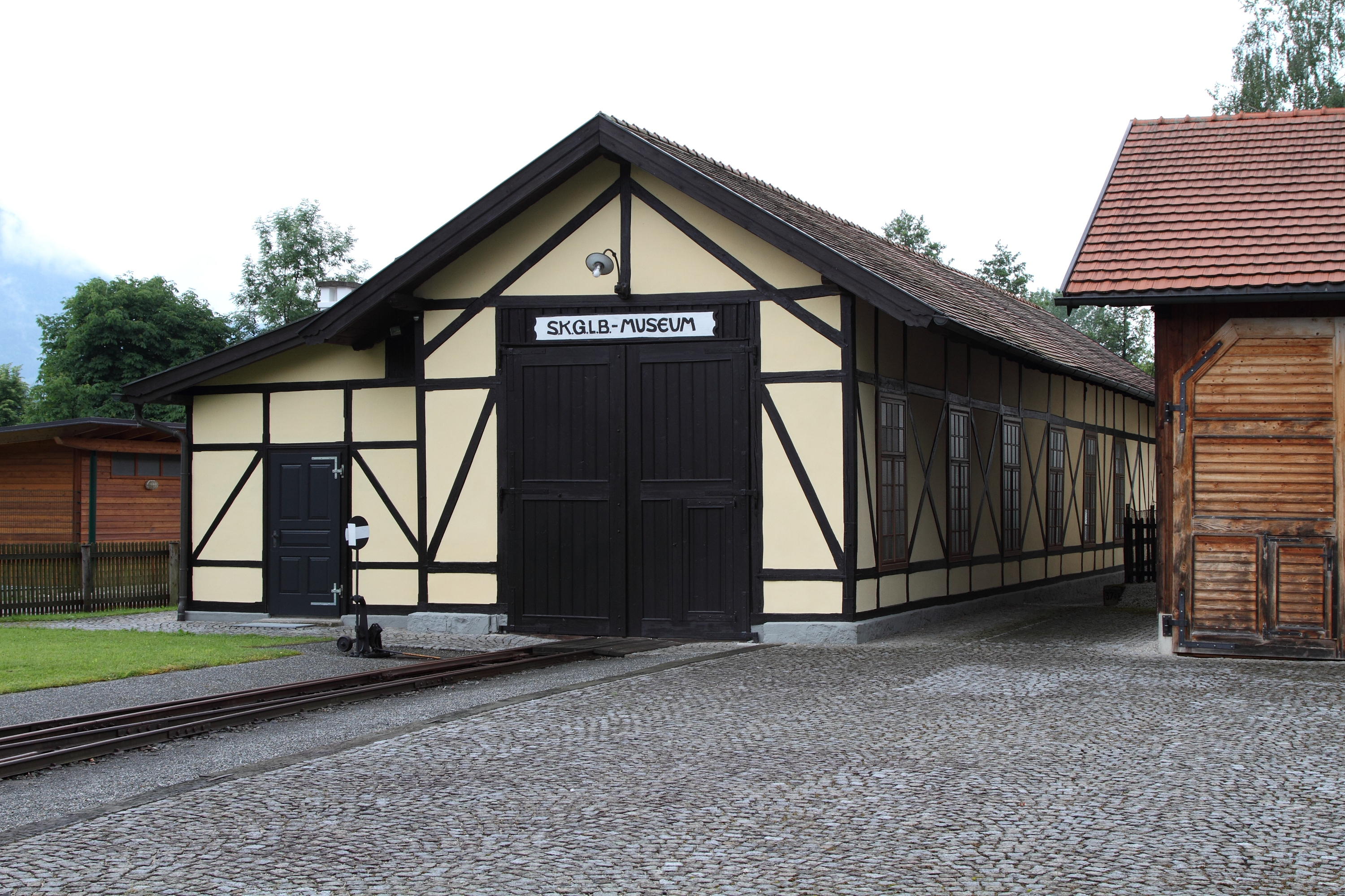 Old engine shed of the Salzkammergut-Lokalbahn at Mondsee. Today this only remaining engine shed of the line is the home of the Salzkammergut-Lokalbahn museum.